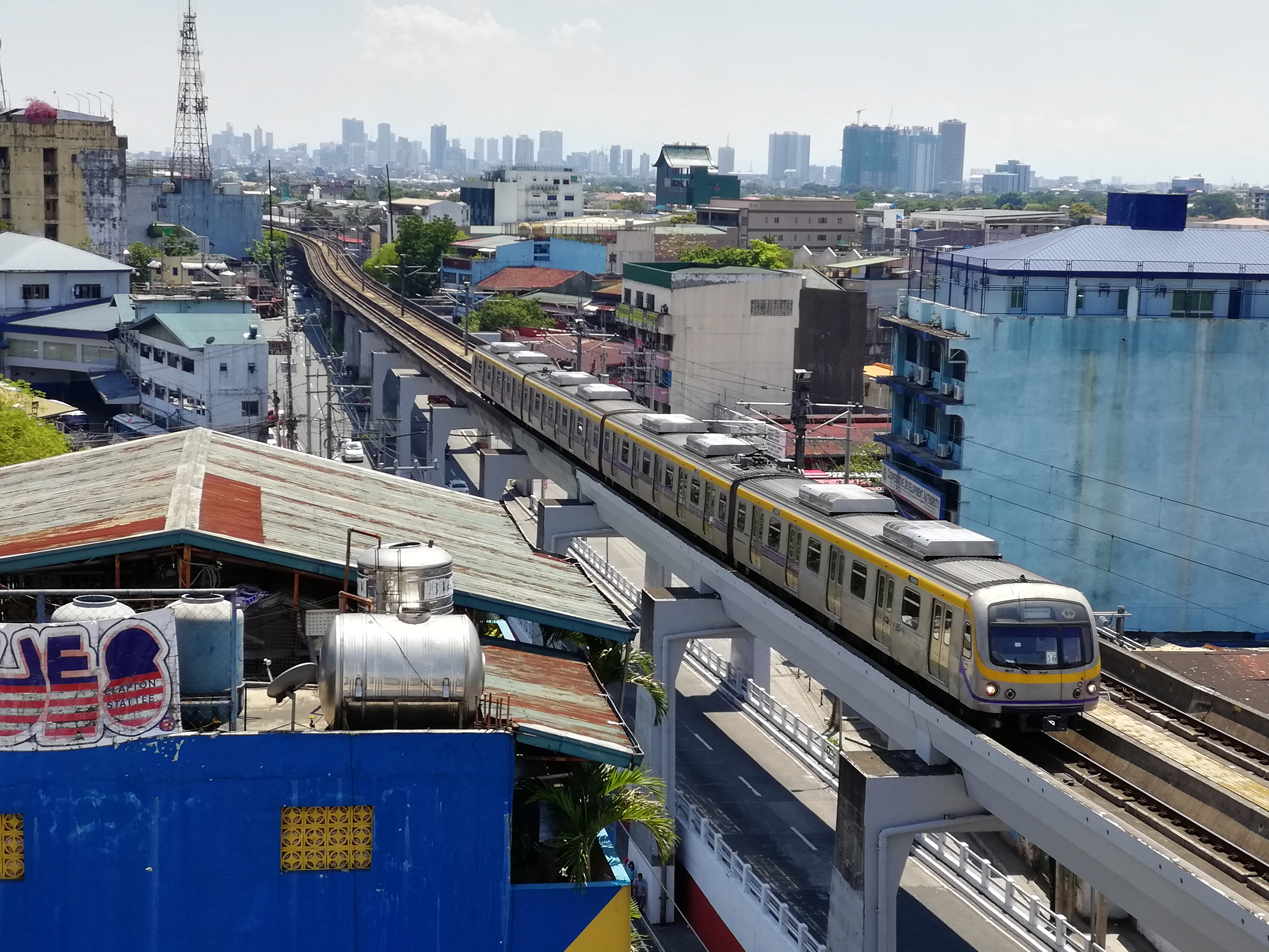 Manila Line 2 train approaching Araneta Center-Cubao station in Quezon City, Metro Manila, Philippines. In the background the skyline of Manila city.